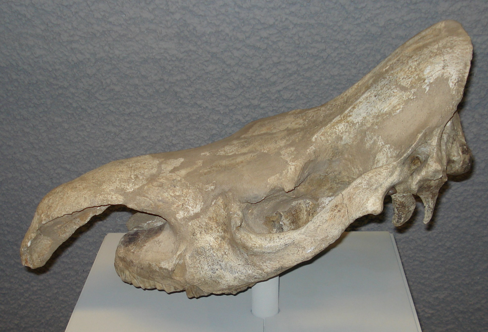 fossil of dicerorhinus